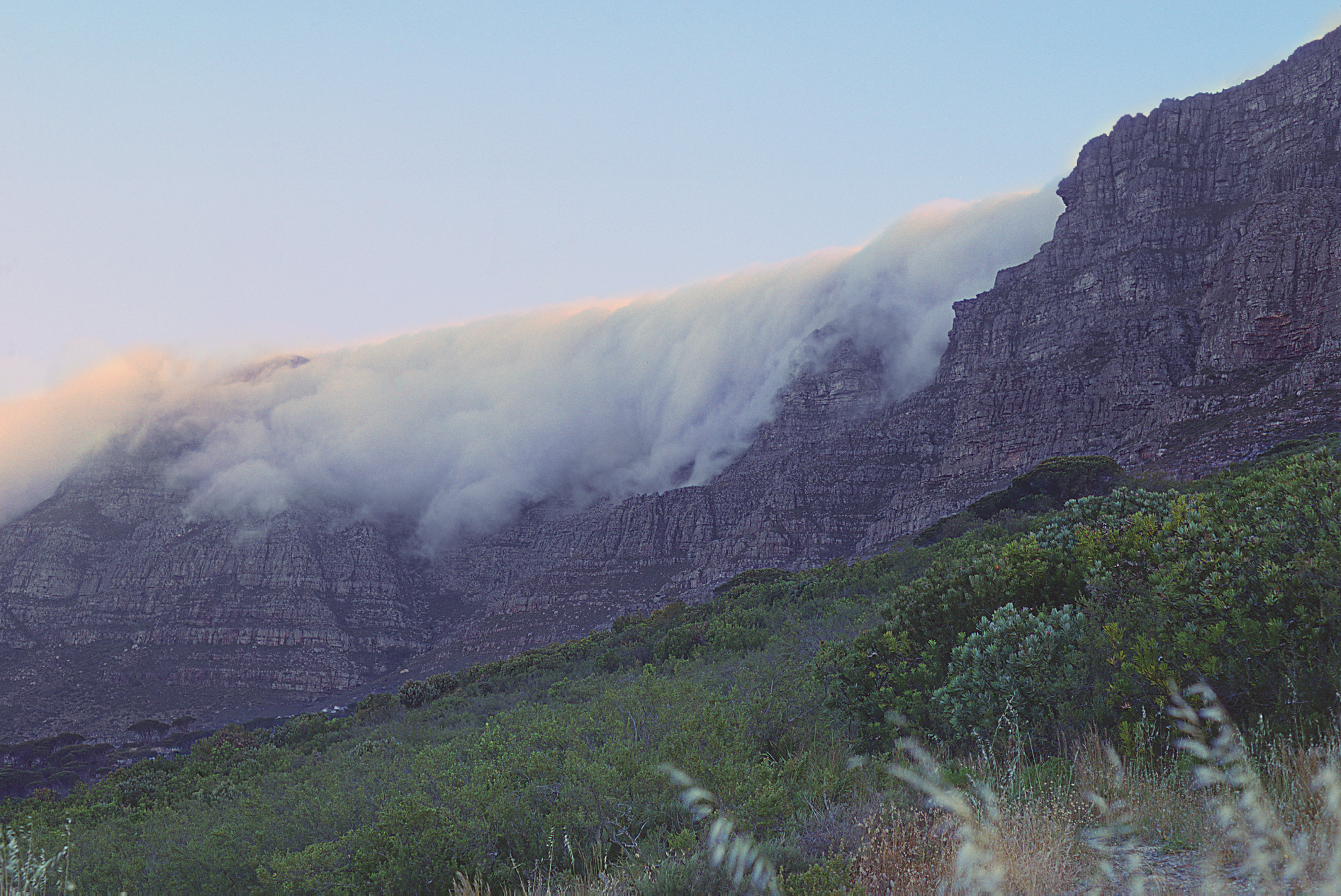 Table Mountain National Park, Western Cape, South Africa. Taken near the start of the chairlift. The Camera is pointed to the East-South East. From the South East (False Bay/Valsbaai), a warm humid wind was blowing over the top of the mountain, producing a thin layer of cloud known as the tablecloth. The cloud in appearance was flowing over the mountain and descending down the slopes facing the camera and evaporating. This is shown in the photo insofar as a still photograph can do it justice. Kodachrome 25